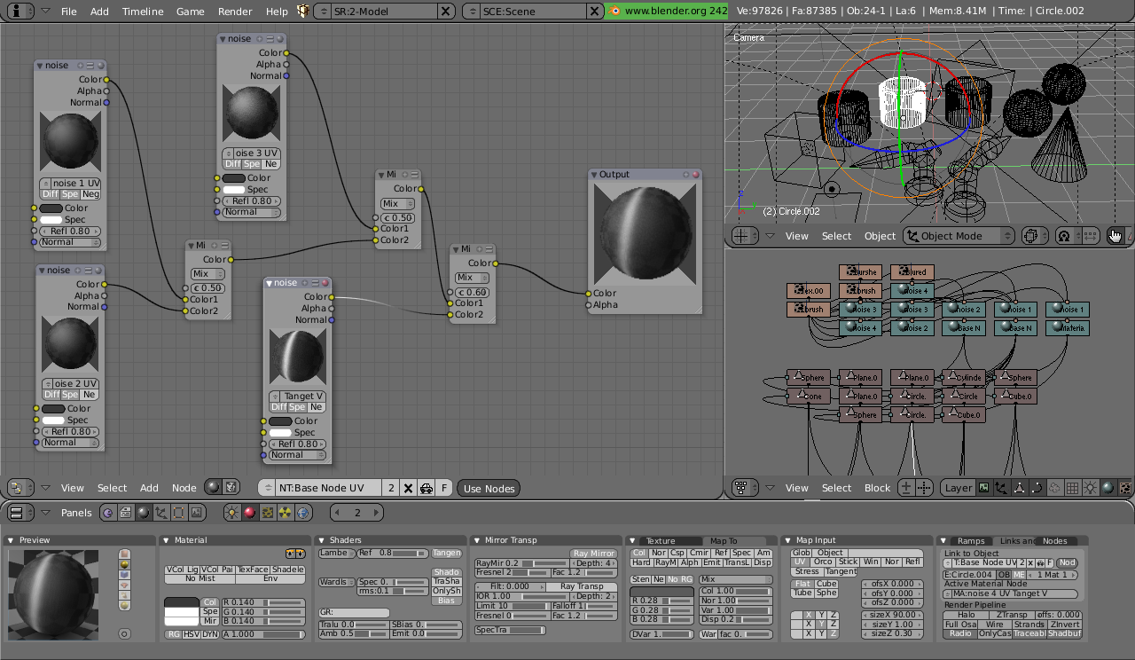 This is a screen capture of a modified .blend file showing a feature of Blender. The original .blend file may be found here.